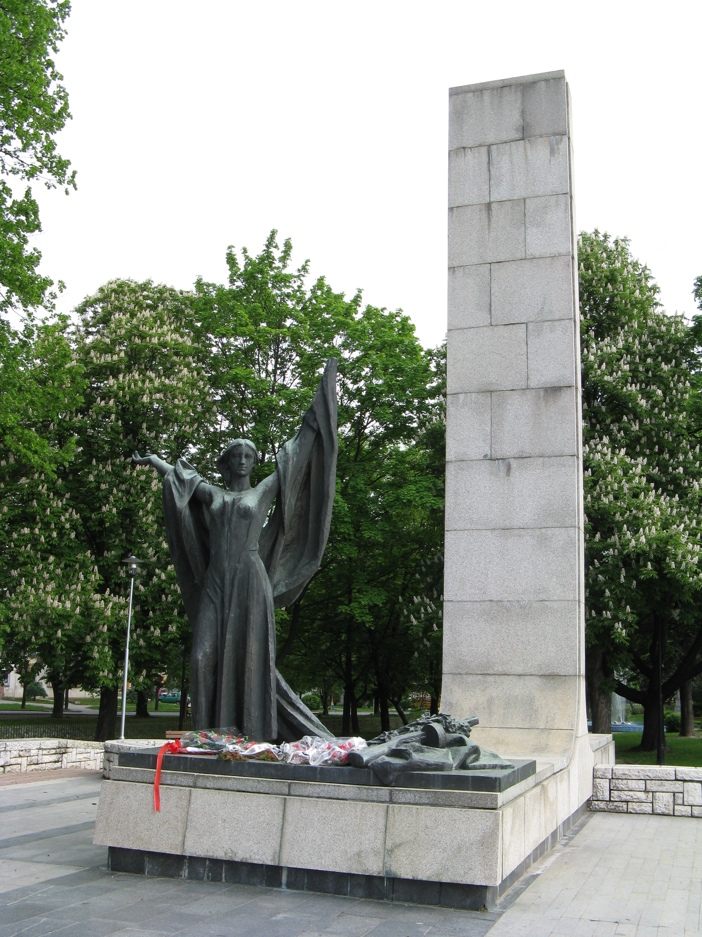 Monument in Krompachy